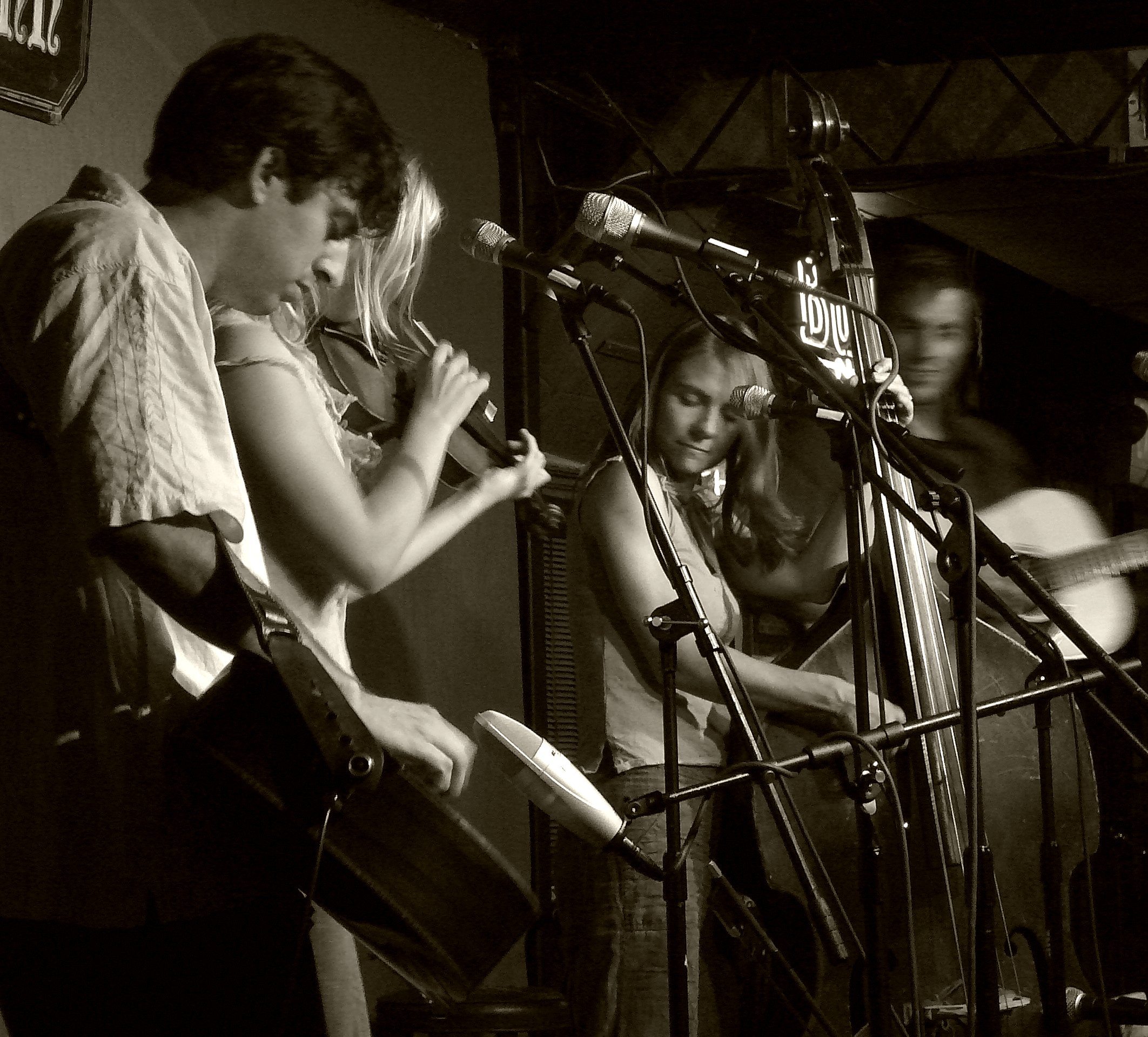 The Biscuit Burners They are so cool they even have a flickr photostream